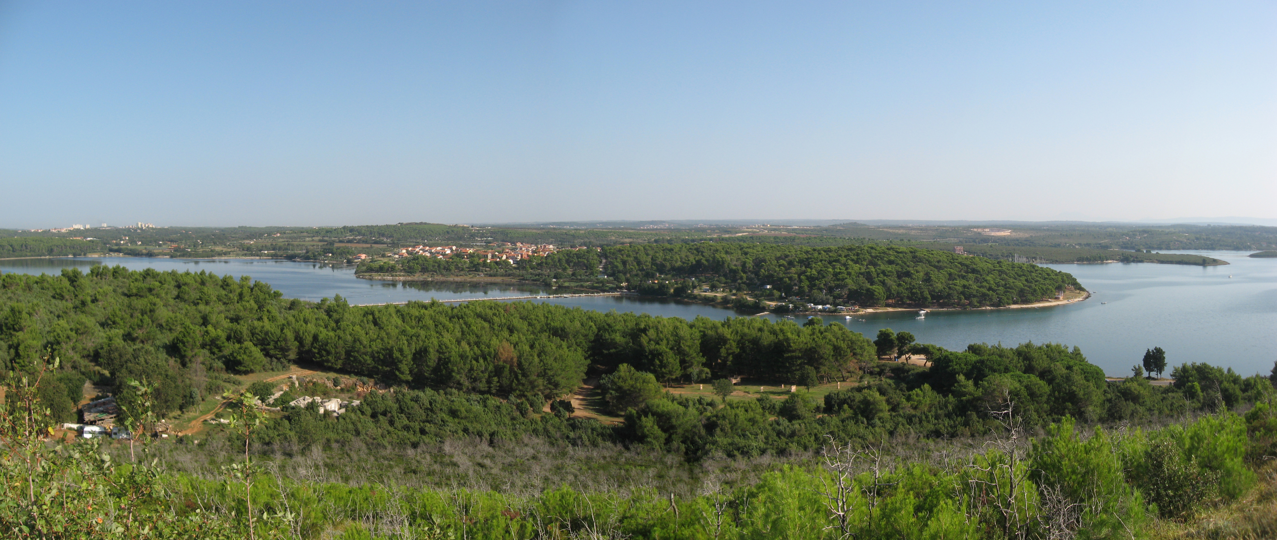 View from the southeast over the bay of Pomer (Medulin), left in the background the city of Pula, Istria